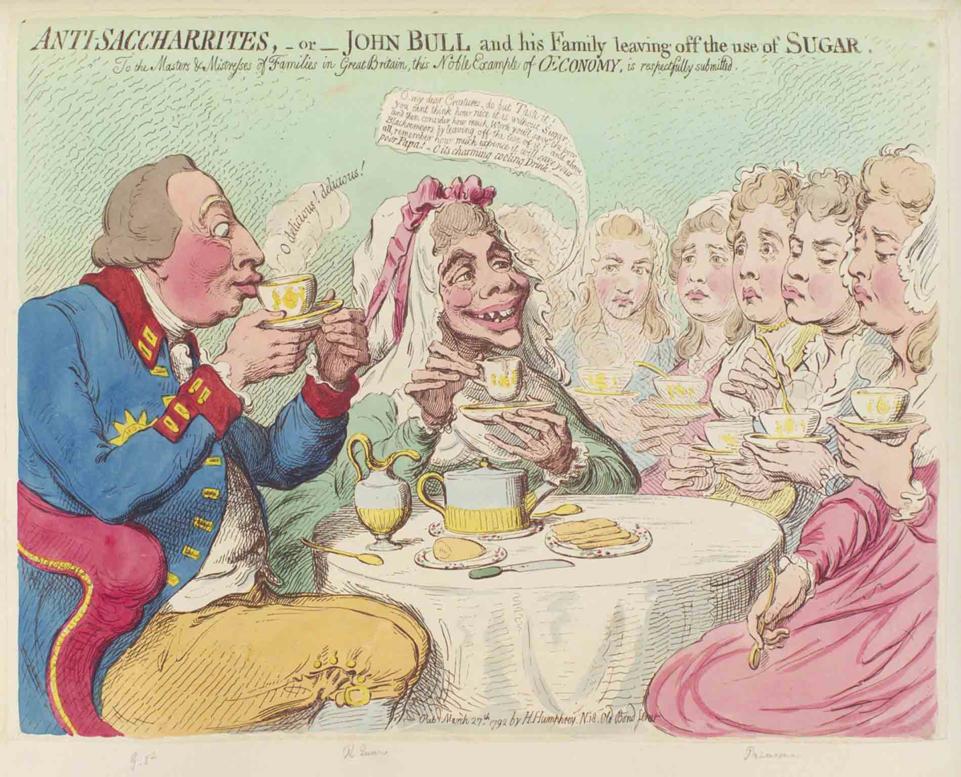 Anti-Saccharrites. Caricatures George III of England and his wife Charlotte drinking tea without sugar and urging their daughters to do the same. The print ridicules a boycott of sugar urged by opponents of the slave trade in 1791.